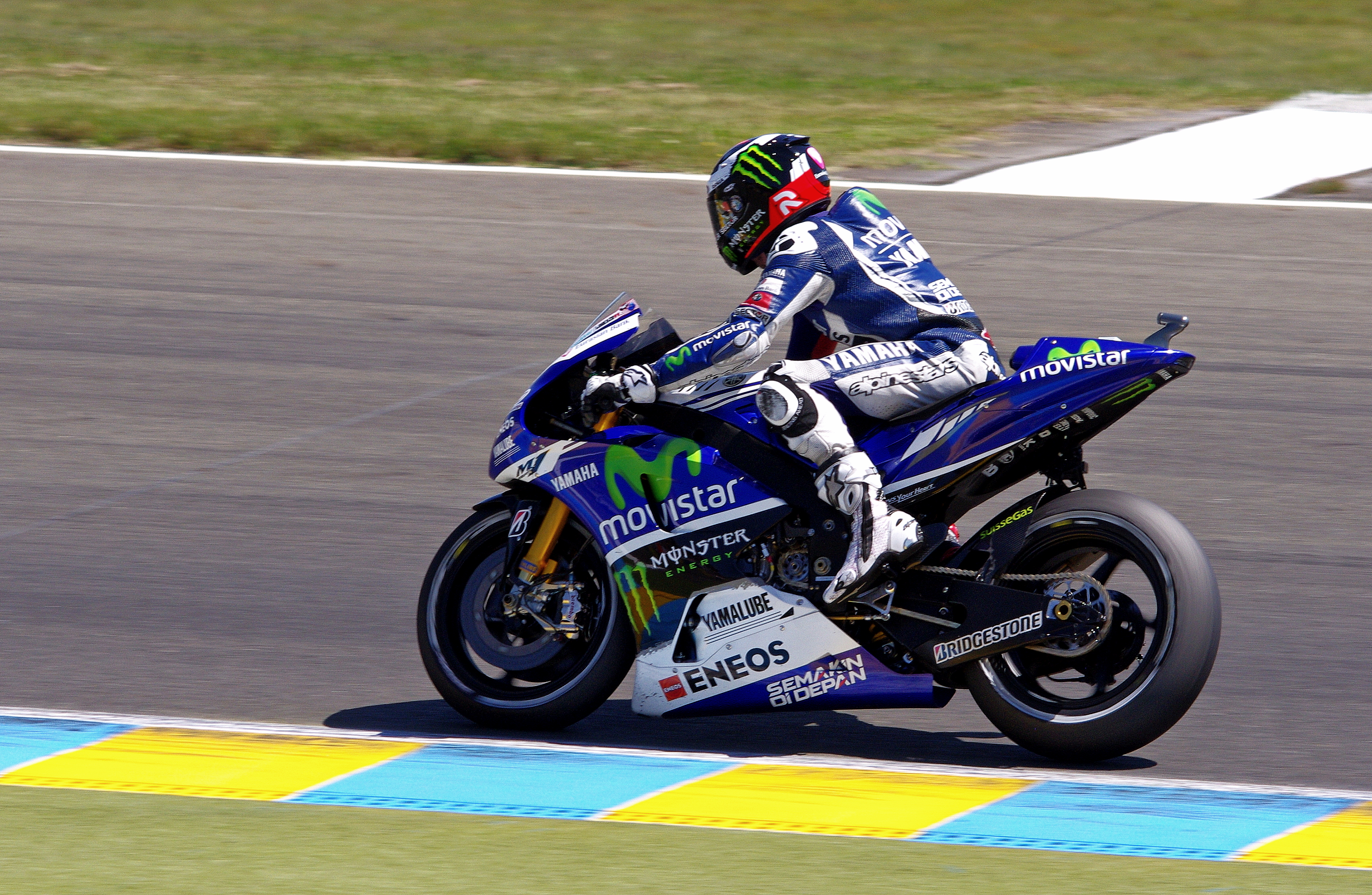 Jorge LORENZO - Movistar Yamaha MotoGP - MotoGP 2014 - Le Mans 2014 french motorcycle Grand Prix at Le Mans Bugatti Circuit